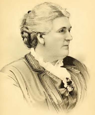 Cropped version of Frances Shimer portrait signed.jpg, showing Frances Shimer, founder, Principal and proprietor of the Mount Carroll Seminary which became Shimer College.